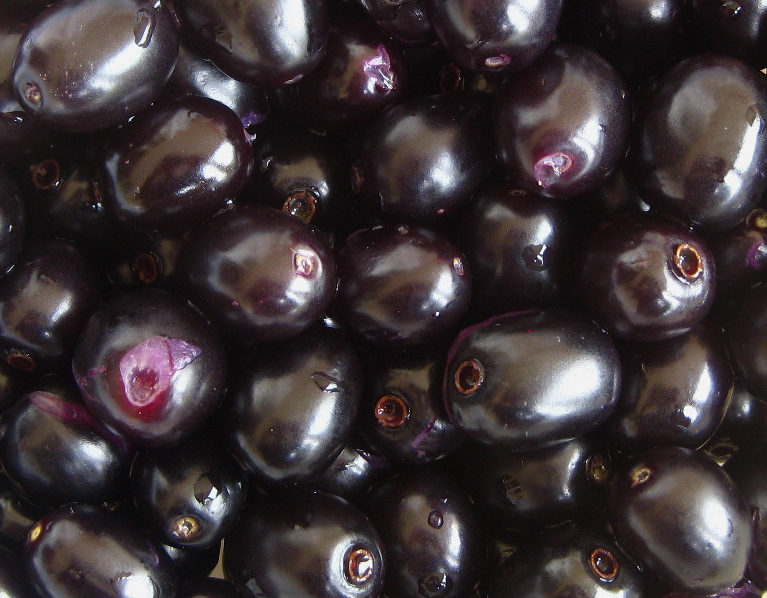 This topical fuit tastes a bit like black cherries. A bit astringent, though, especially when not really ripe.